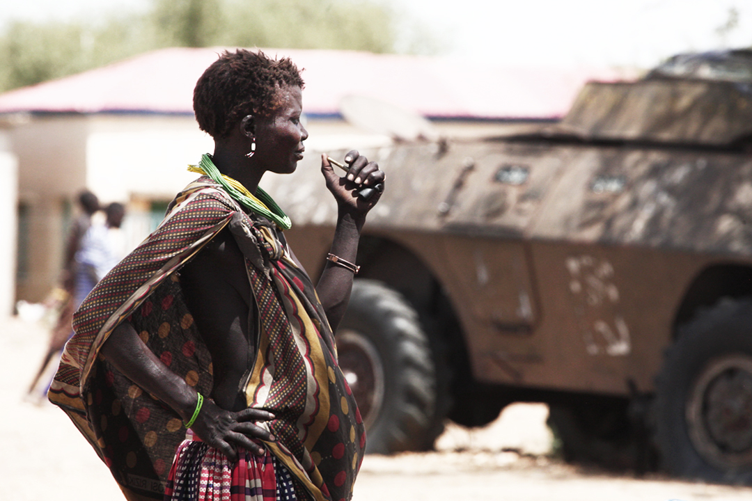 Toposa woman in South Sudan. Tank in background